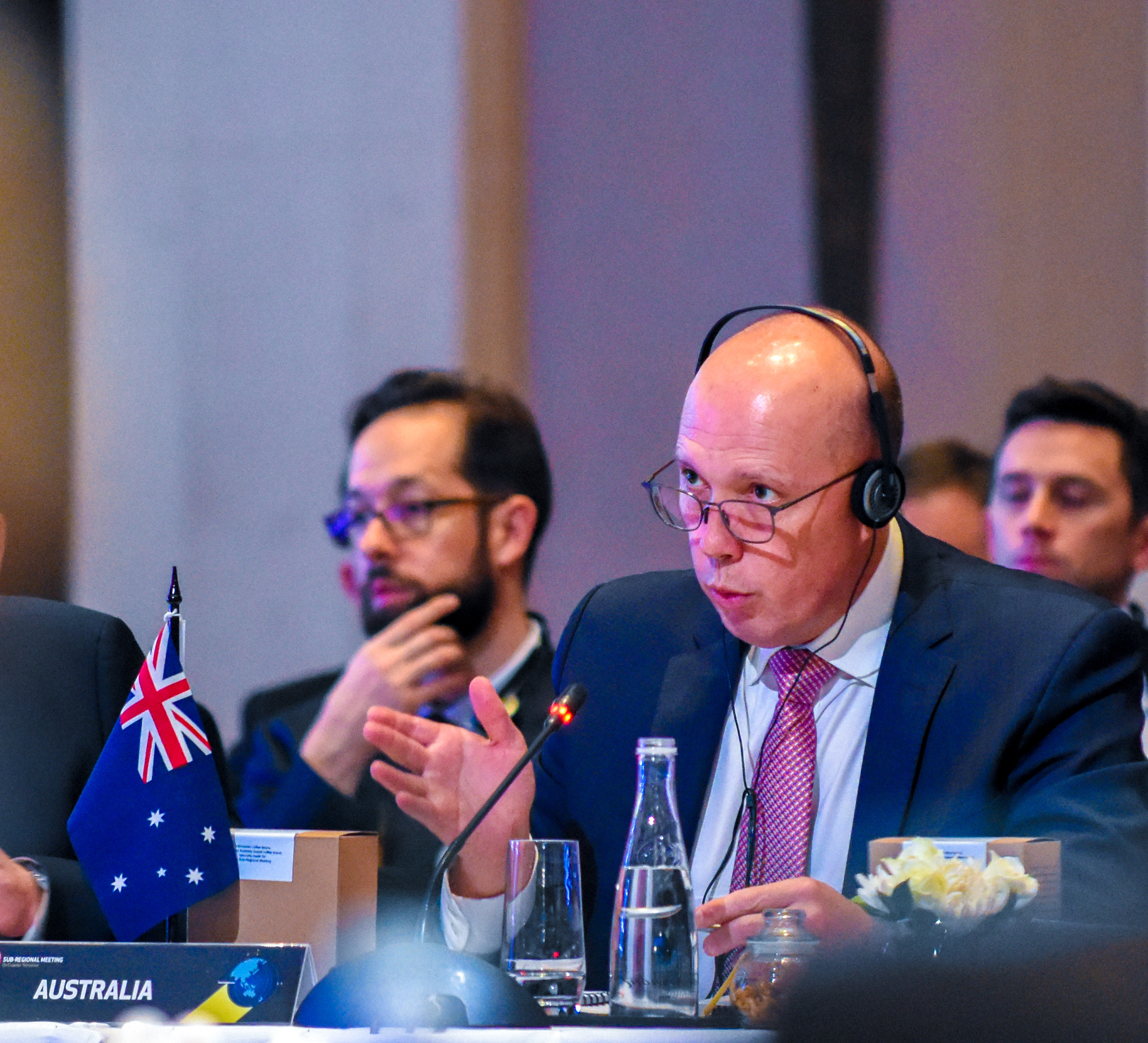 Peter Dutton at the 2018 Sub-Regional Meeting on Counter Terrorism in Indonesia Peter Dutton at the 2018 Sub-Regional Meeting on Counter Terrorism in Indonesia